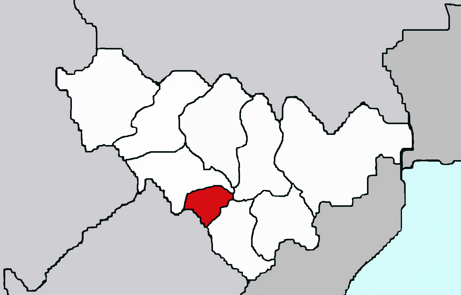 Maps of Jilin Province , China